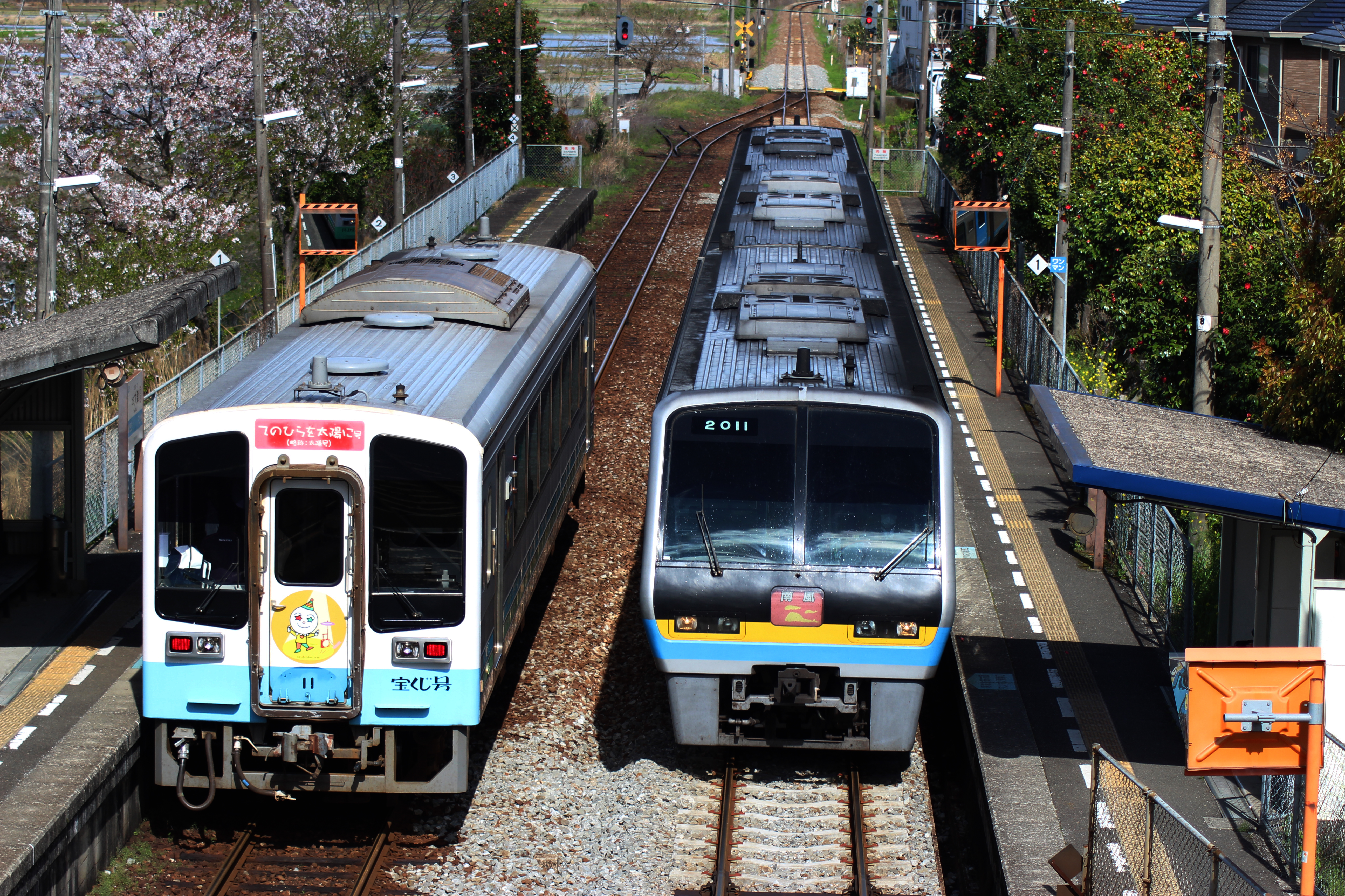 A rapid train for Tosa Kuroshio Railway, left, waits as the limited express train, right, starts off from Tosa-Otsu Station